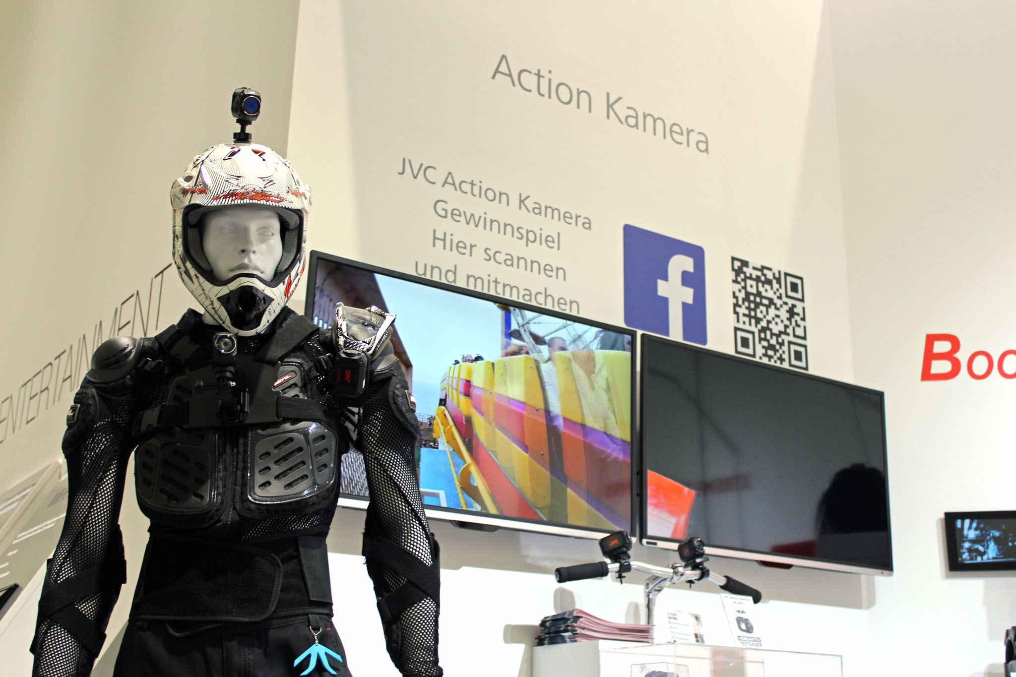 Wer dieses Bild benutzen möchte, der möge bitte den Link auf seiner Seite einbinden. If you want to use this picture, please implement the link on the website containing the picture.